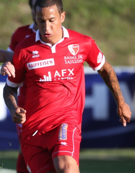 Léo Lacroix